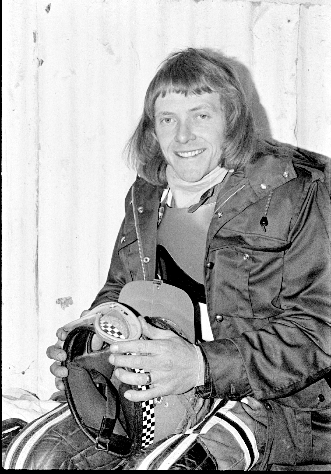 Speedway rider in the 1970s